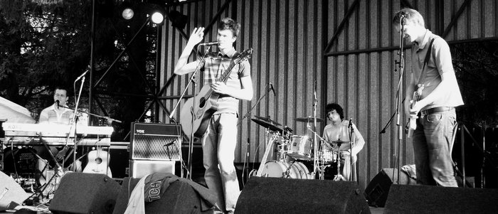 Charlie Straight, Hutnický den, Třinec 3 May 2008